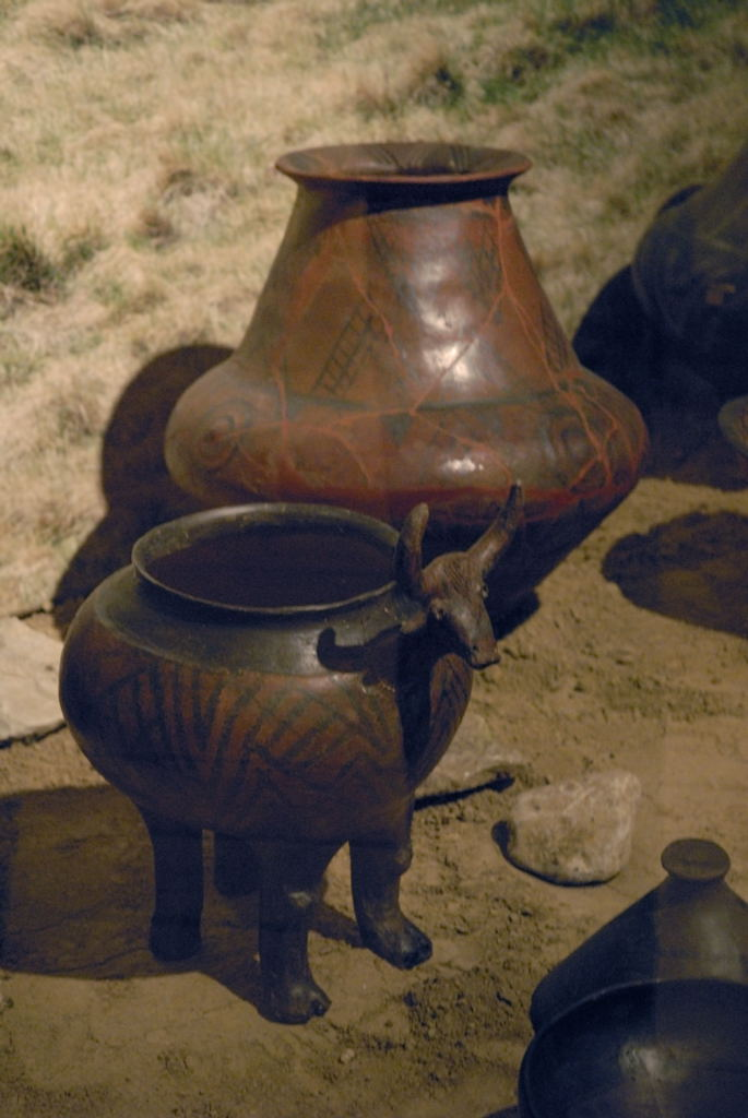 Bull's head pottery from a Hallstatt era tumulus in Southern Styria, Austria (museum display)